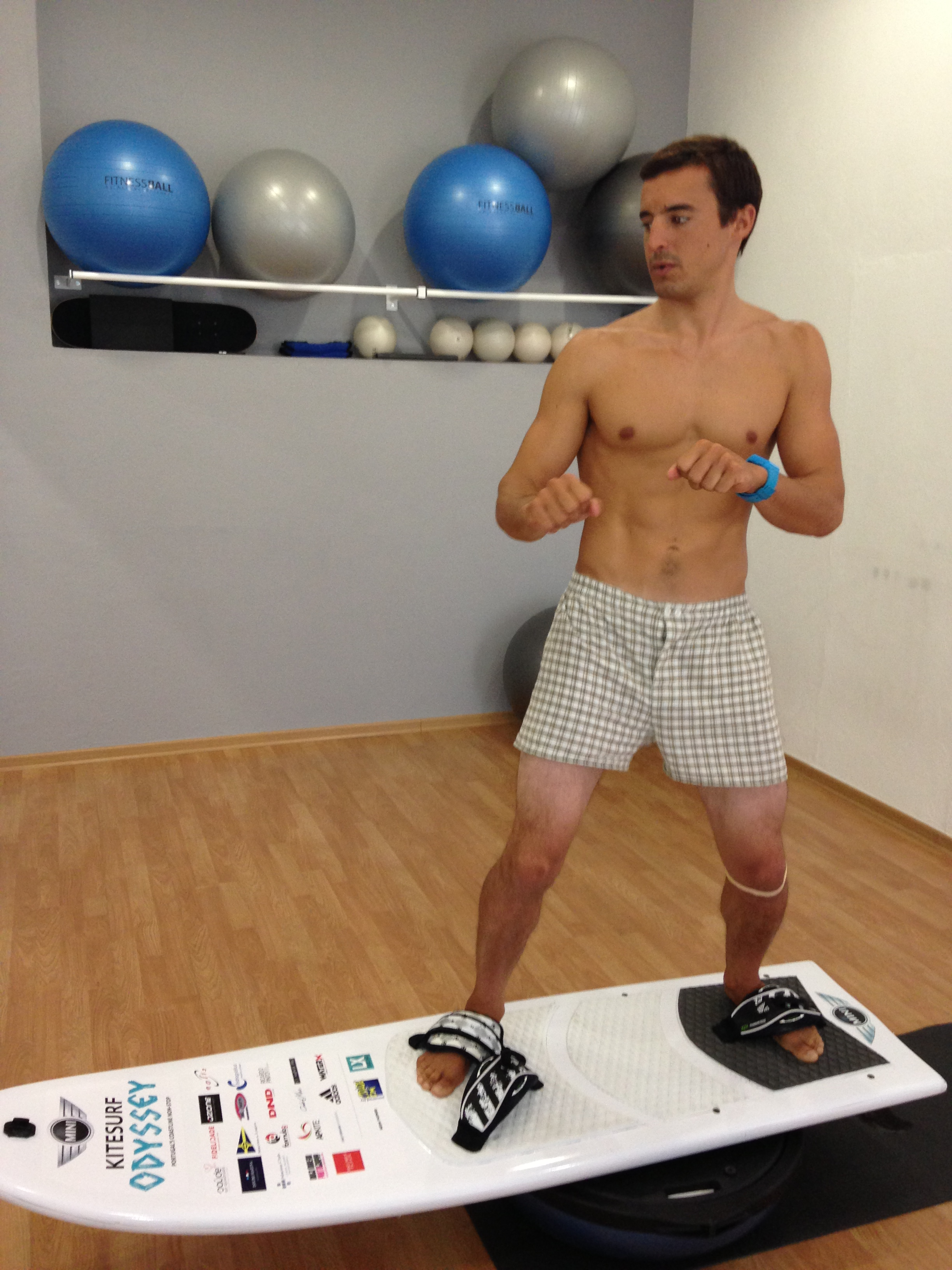 Francisco Lufinha training at the gym, preparing for the 29 hours on a board.